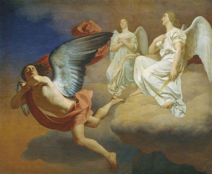 Abaddon and angels by F.Zavialov